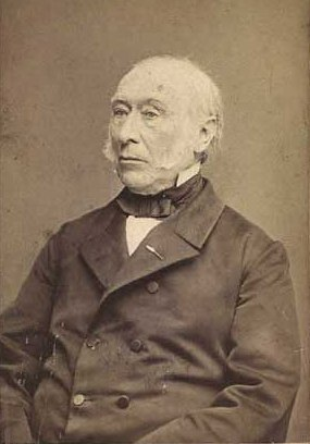 Frederik Vilhelm Mansa (1794-1879), Danish physician and medicinal historian